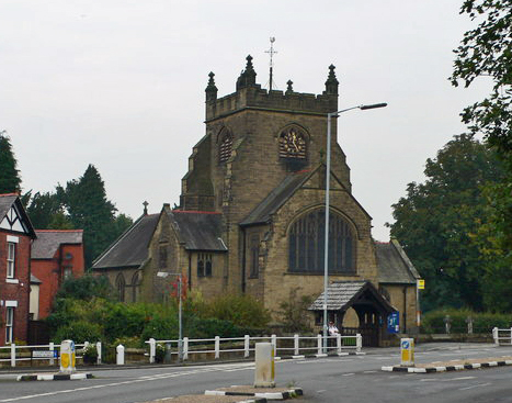 Christ Church, Rossett Christ Church was first built in 1841. So as to pack as many people in as possible, the pews were spaced so closely together that there was no room for people to kneel. It was rebuilt in 1891 - with kneeling room.